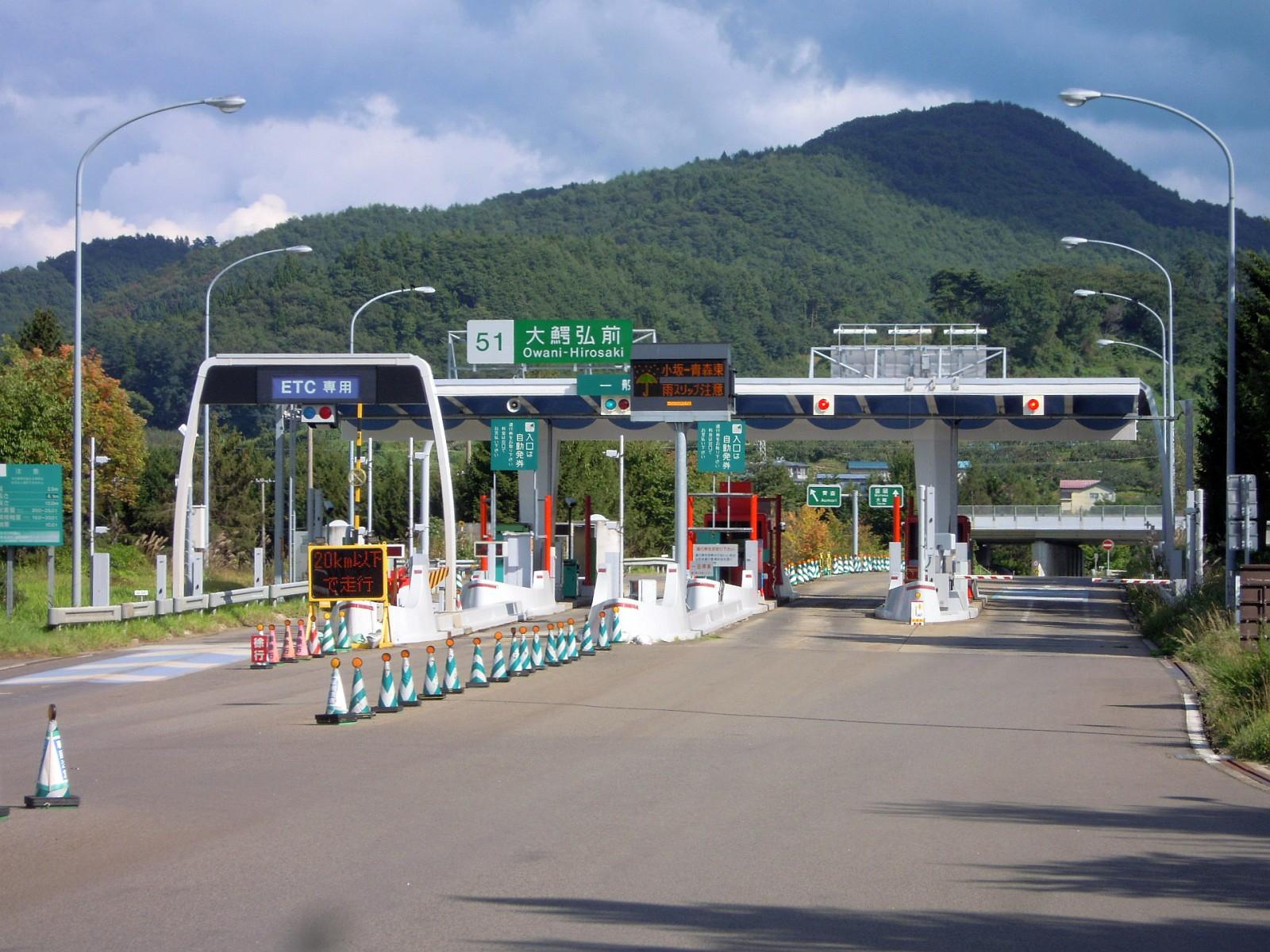 This Interchange, Owani-Hirosaki Interchange, is on Tohoku Expressway, in Owani towan Aomori Prefecture, Japan.